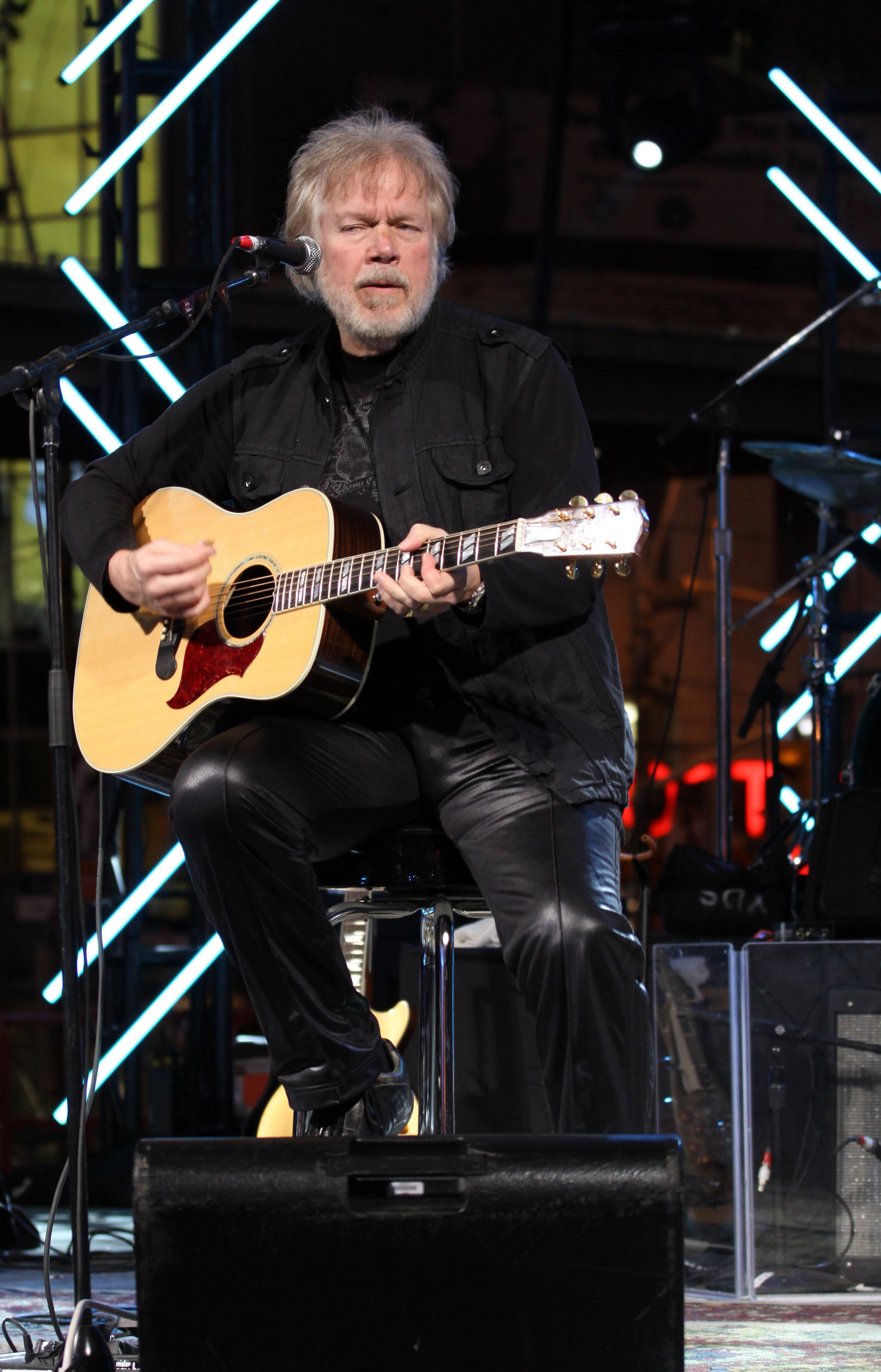 Randy Bachman, doing an accoustic performance during his set, on opening night of the Luminato festival in Toronto, Canada. This is just an early sampling, of what is to come.